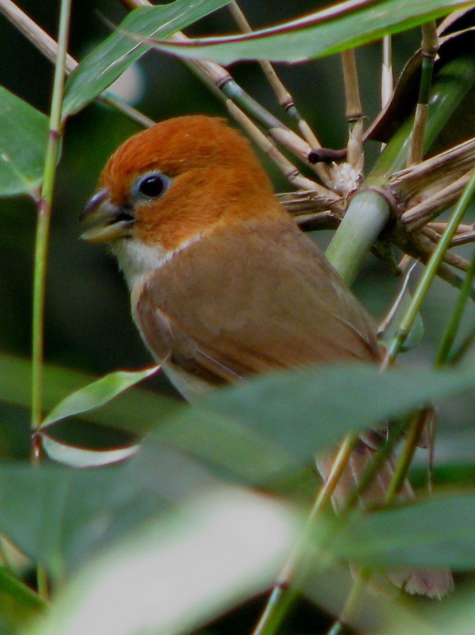 Greater Rufous-headed Parrotbill, Eaglenest Wildlife Sanctuary